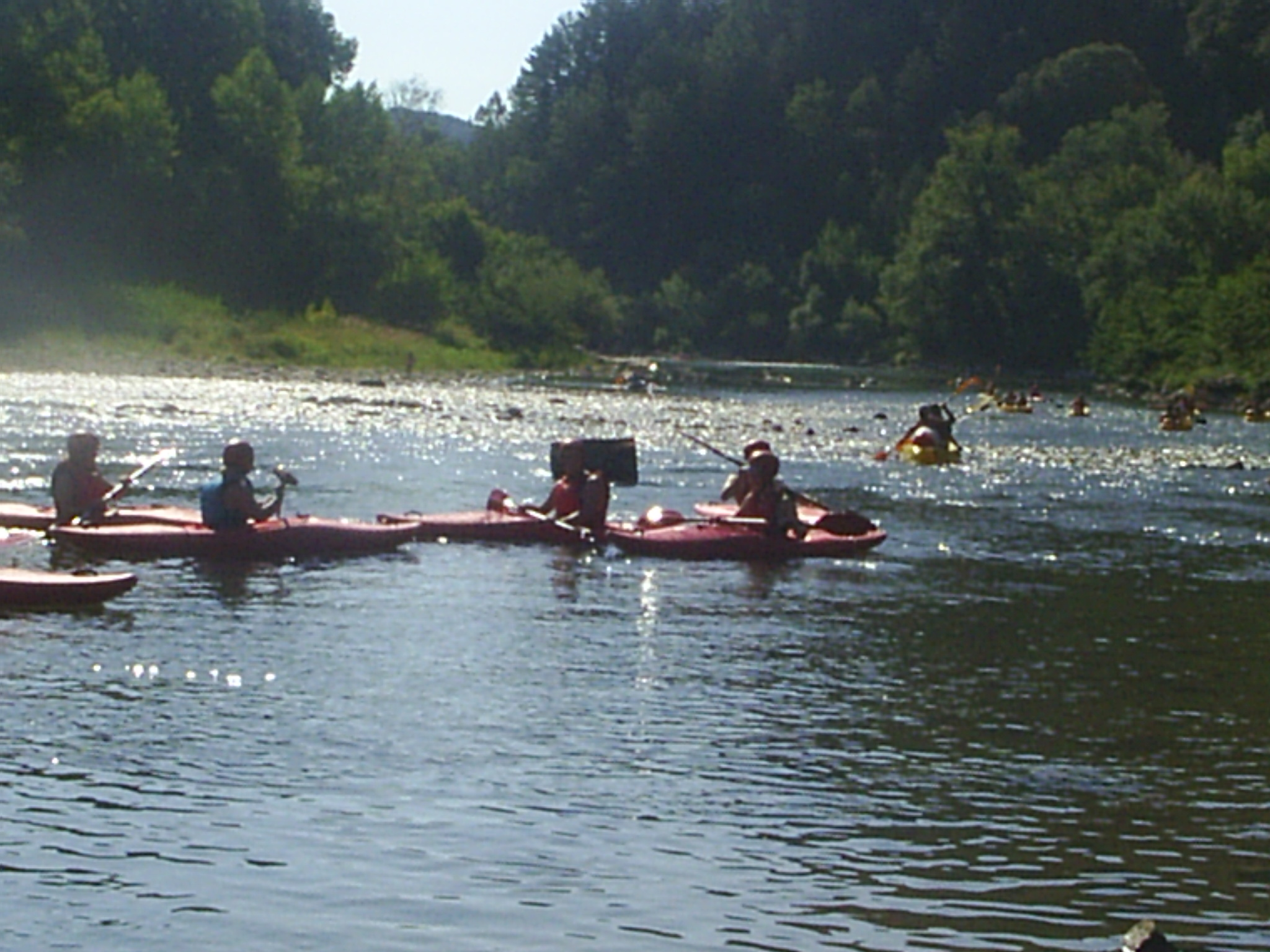 Kayaks in the Ardèche Rivir